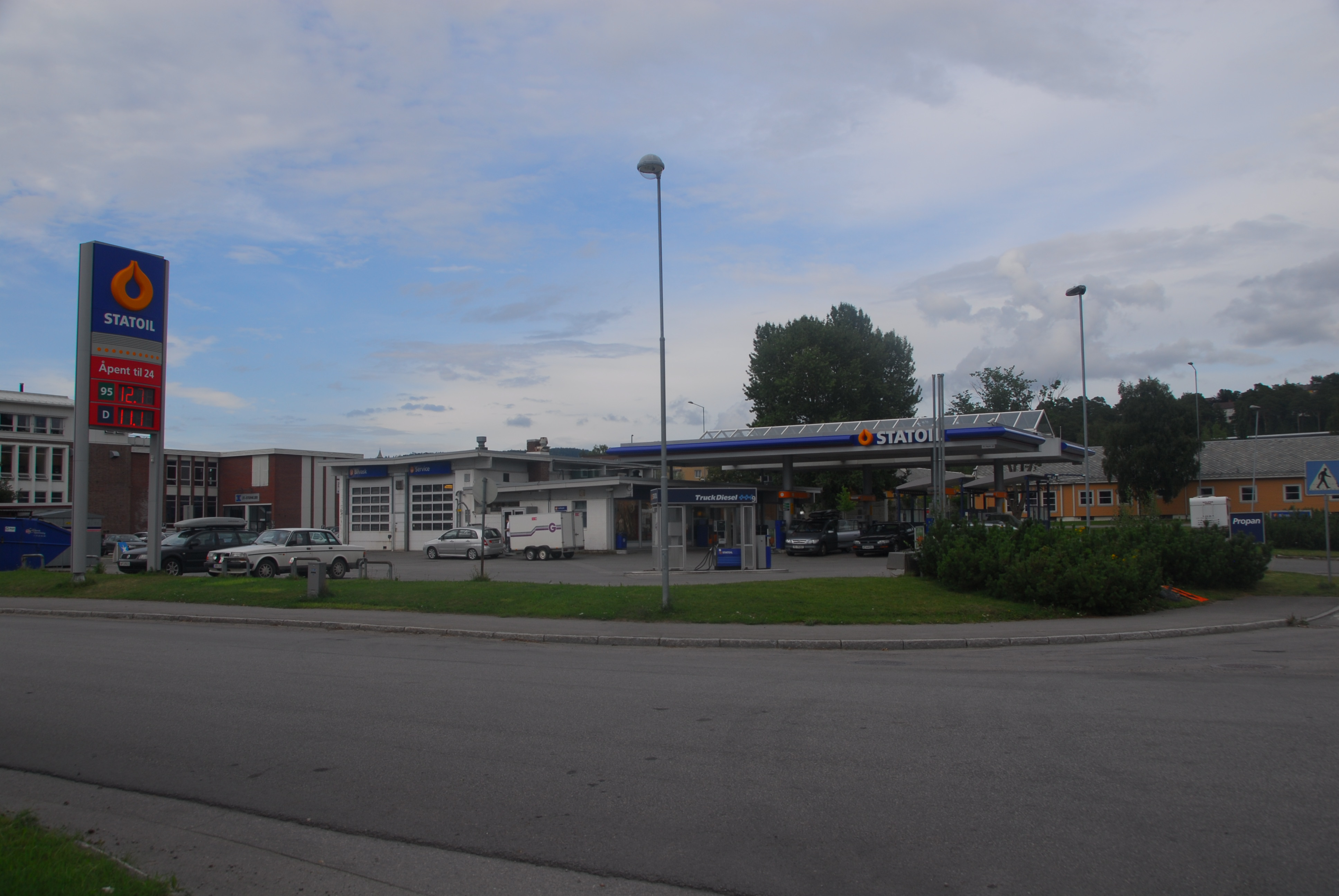 A Statoil fuel station in Steinkjer, Norway.